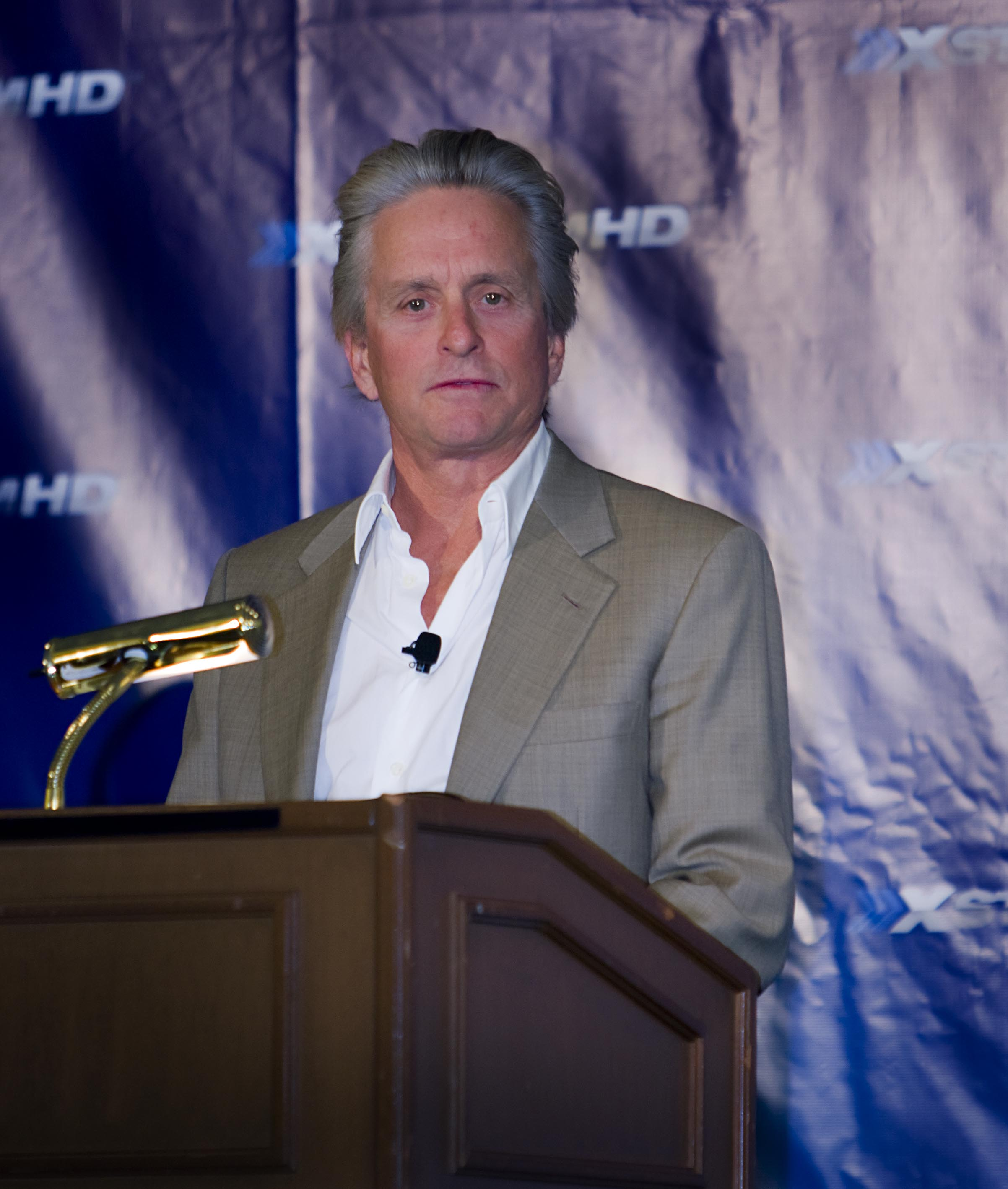 XStreamHD Press Conference on Tuesday, January 8, 2008 in the Venetian Hotel, Las Vegas. Nevada features Two-Time Academy-Award Winner Michael Douglas. XStreamHD Unveils First-Ever Transport Network To Deliver High-Defination Movies, Music, and More Directly to the Home at CES 2008.